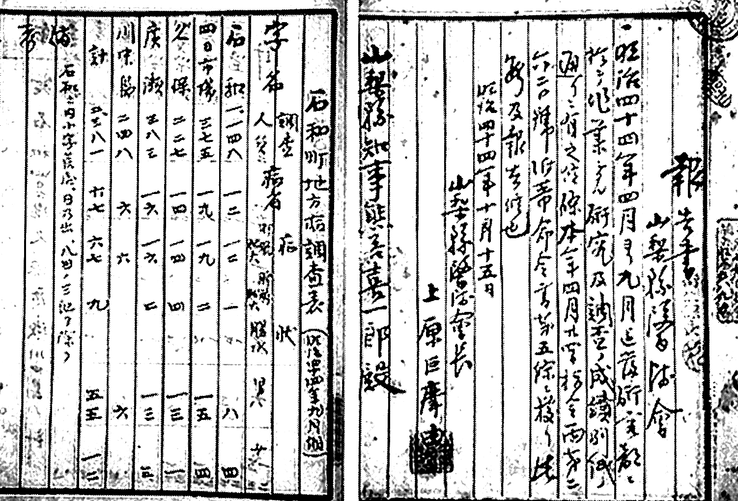 By Yamanashi Prefecture Medical Association in 1911, Schistosoma japonicum symptoms investigation report.